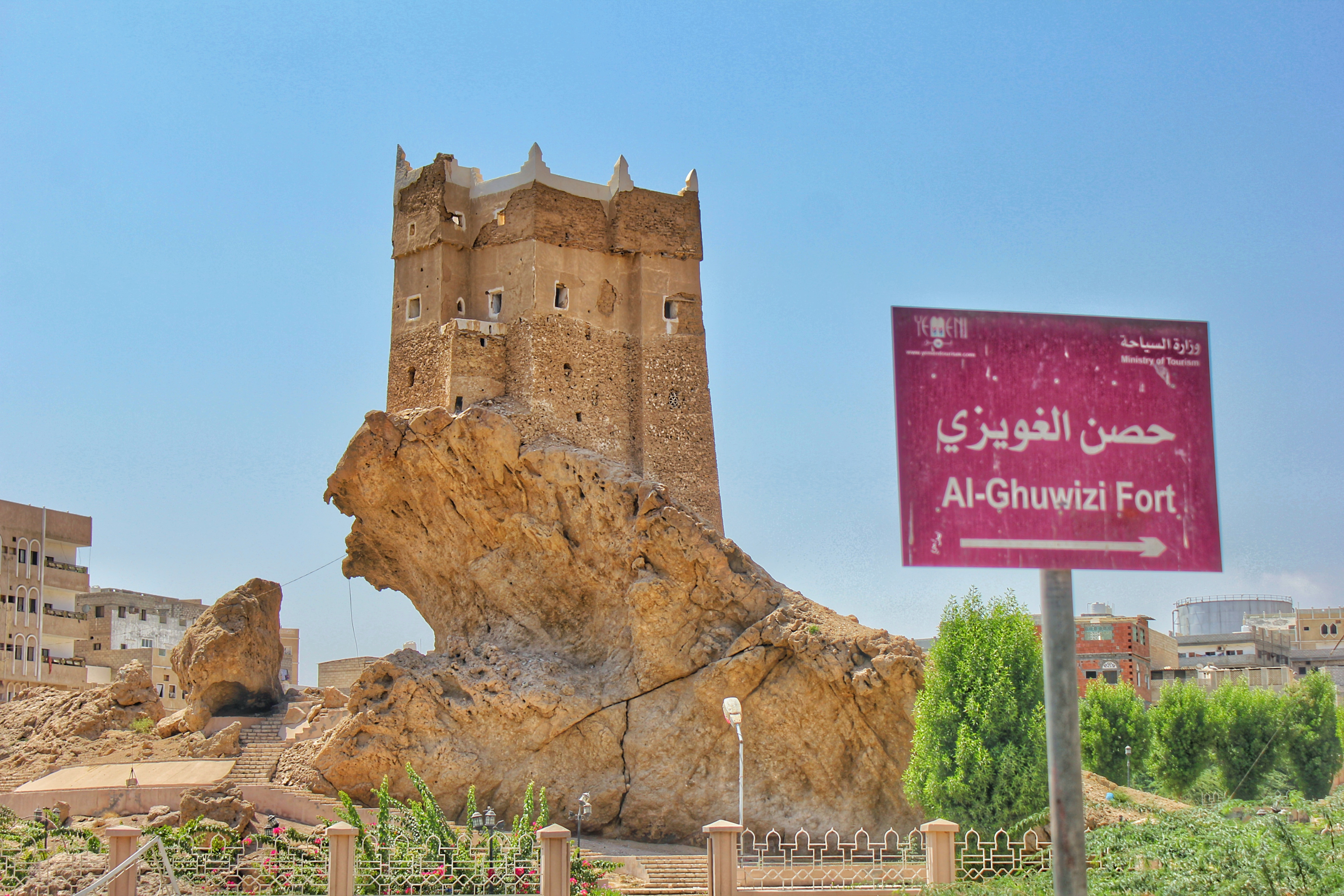 Fort Al-Ghwayz